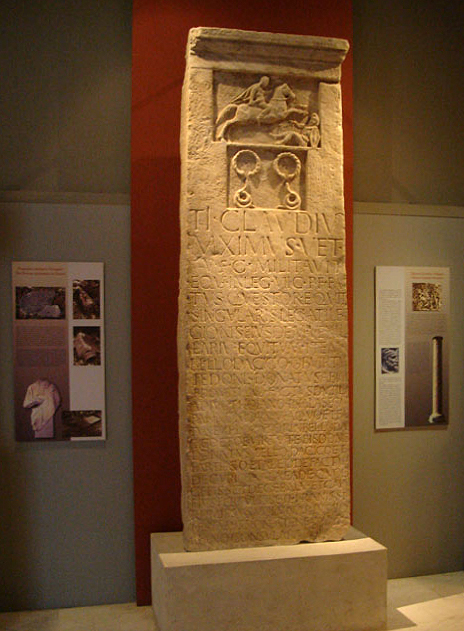 The grave stele of Tiberius Claudius Maximus, which was found at Grammeni, image from the Archaeological Museum, Drama, East Macedonia, Greece